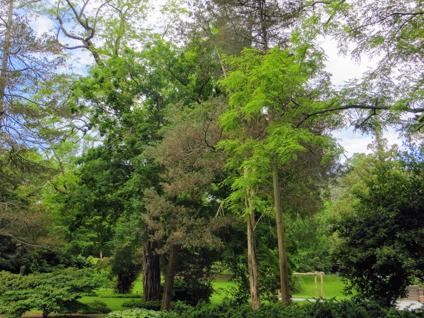 A view of the variety of trees at the Bailey Arboretum located in Lattingtown, New York.